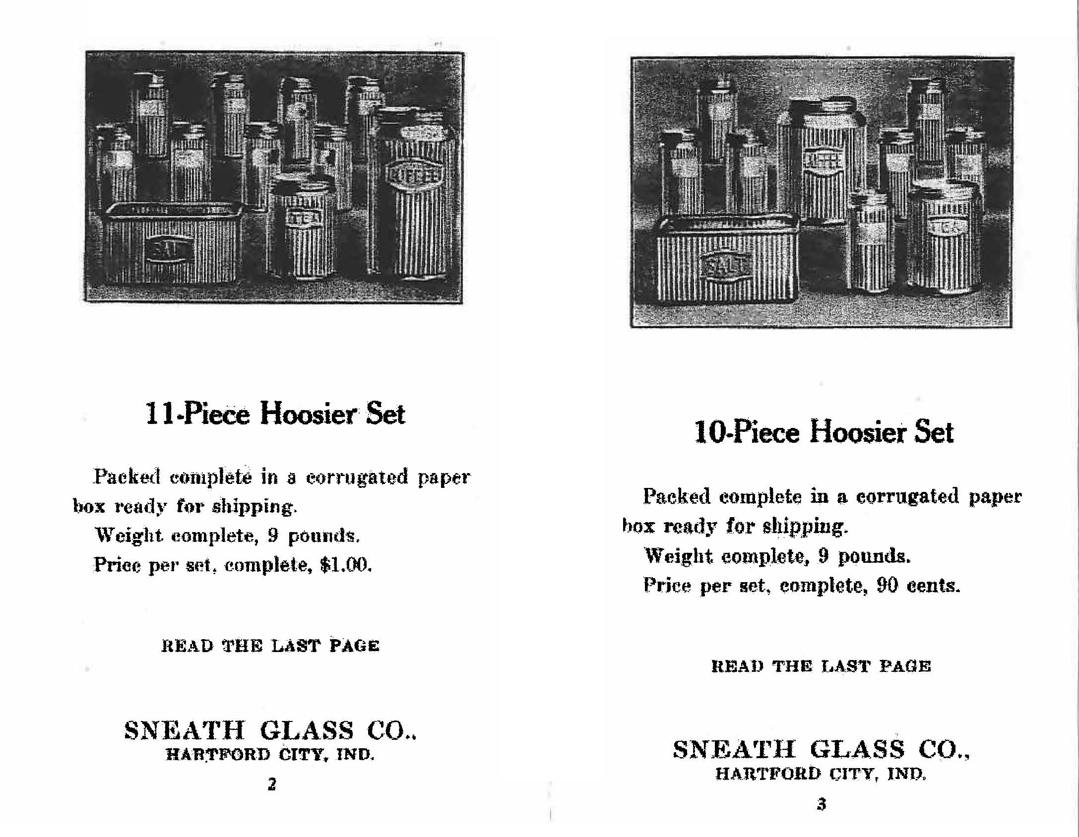 Page 2 and 3 of sales brochure for kitchen glassware made by Sneath Glass Company